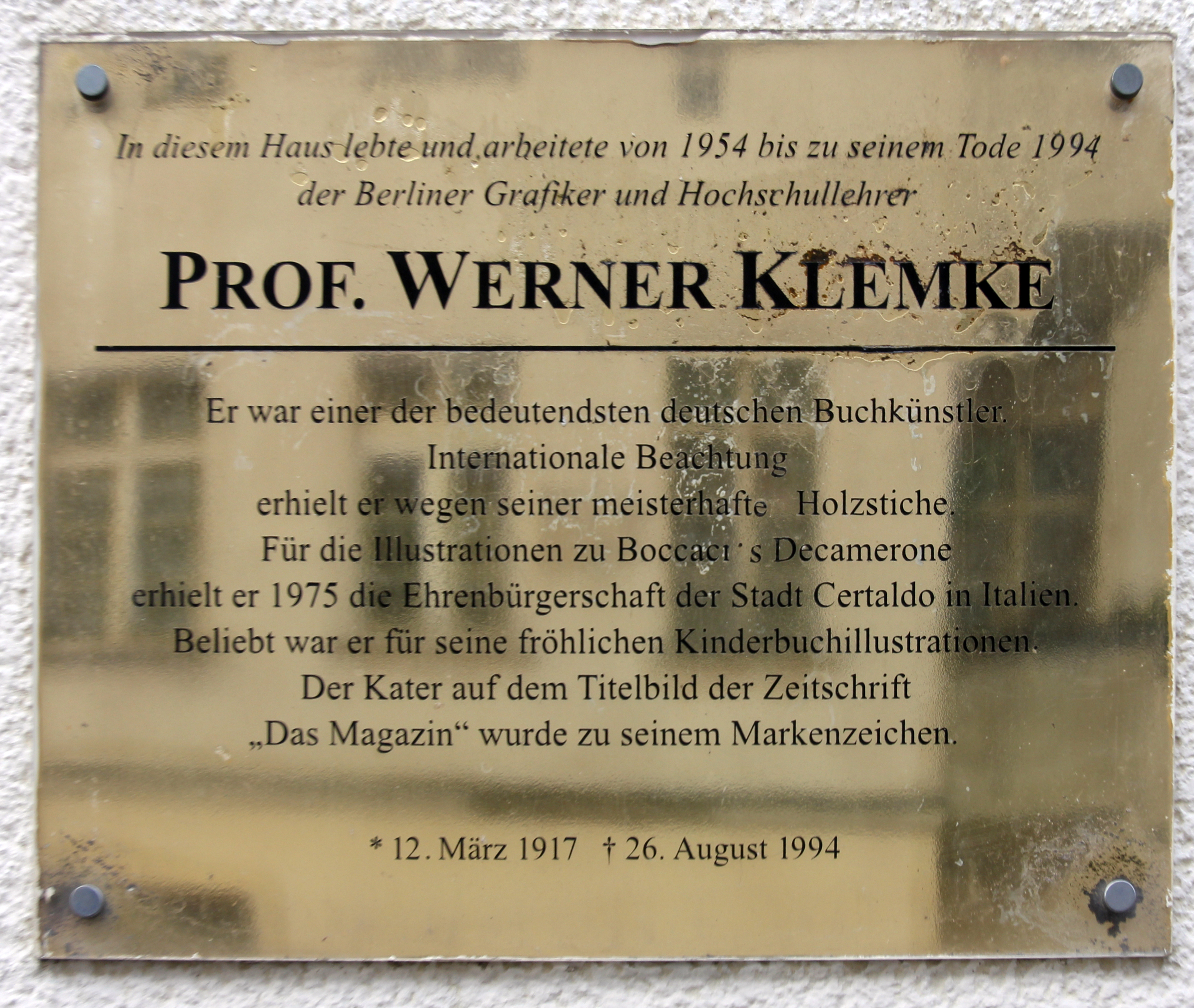 Memorial plaque, Werner Klemke, Tassostraße 21, Berlin-Weißensee, Germany